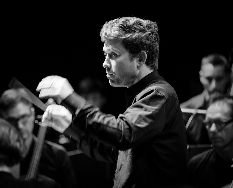 Geoffrey Paterson with Marius Neset and London Sinfonietta in Kongsberg Musikkteater. The concert was part of Kongsberg Jazzfestival and took place on 04. July 2018 in Kongsberg. This was the opening concert at the festival.Lineup:Marius Neset (saxophone)Ivo Neame (piano)Jim Hart (vibraphone and percussion)Petter Eldh (double bass)Anton Eger (drums)Geoffrey Paterson (conductor)London Sinfonietta (orchestra)